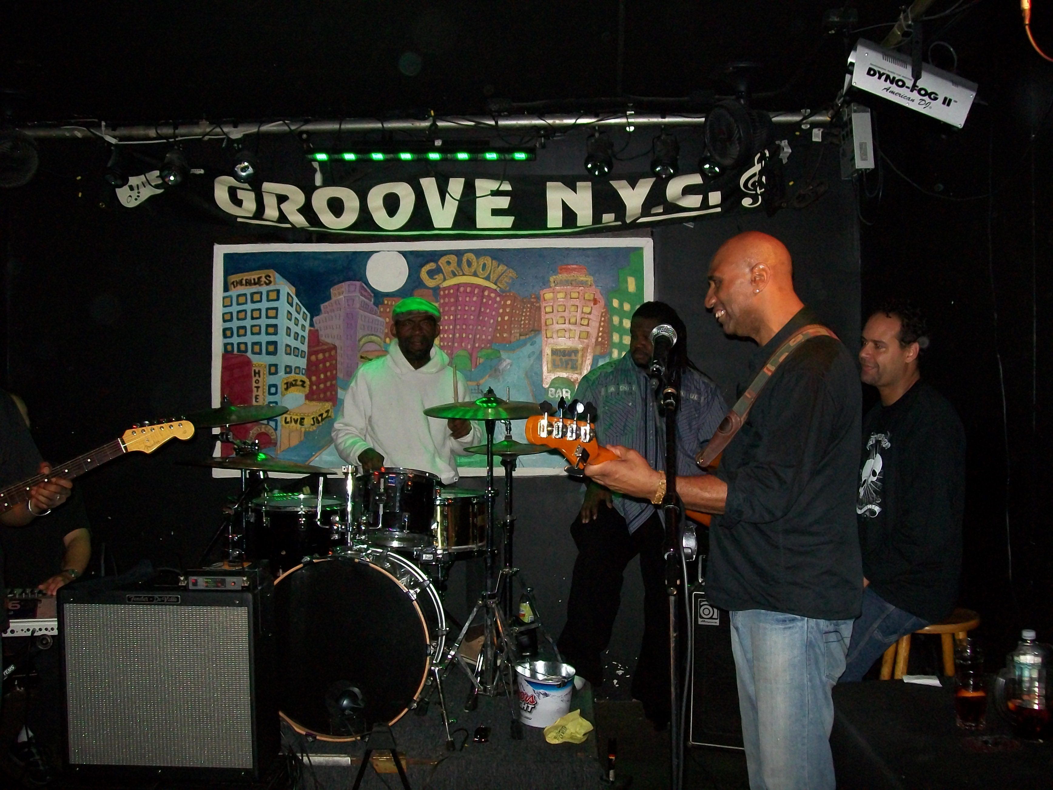 Jojo and Linard (bass guitar) at the Groove (New-York)